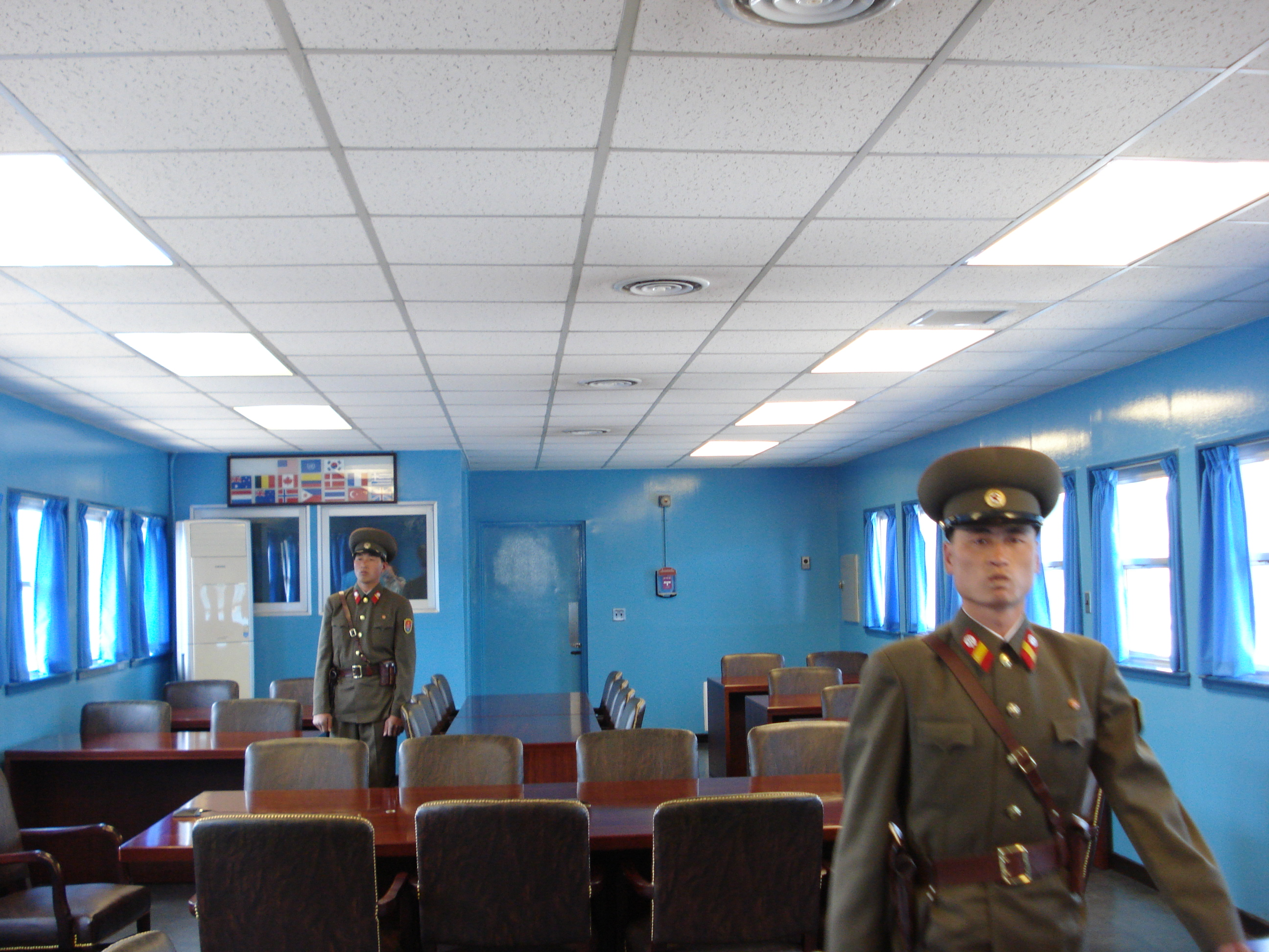 DPRK soldier at the DMZ